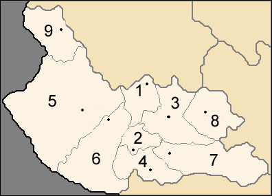 Kyustendil Province. Мunicipalities: 1. Bobov Dol, 2. Boboshevo, 3. Dupnitsa, 4. Kocherinovo, 5. Kyustendil, 6. Nevestino, 7. Rila, 8. Sapareva Banya, 9. Treklyano.